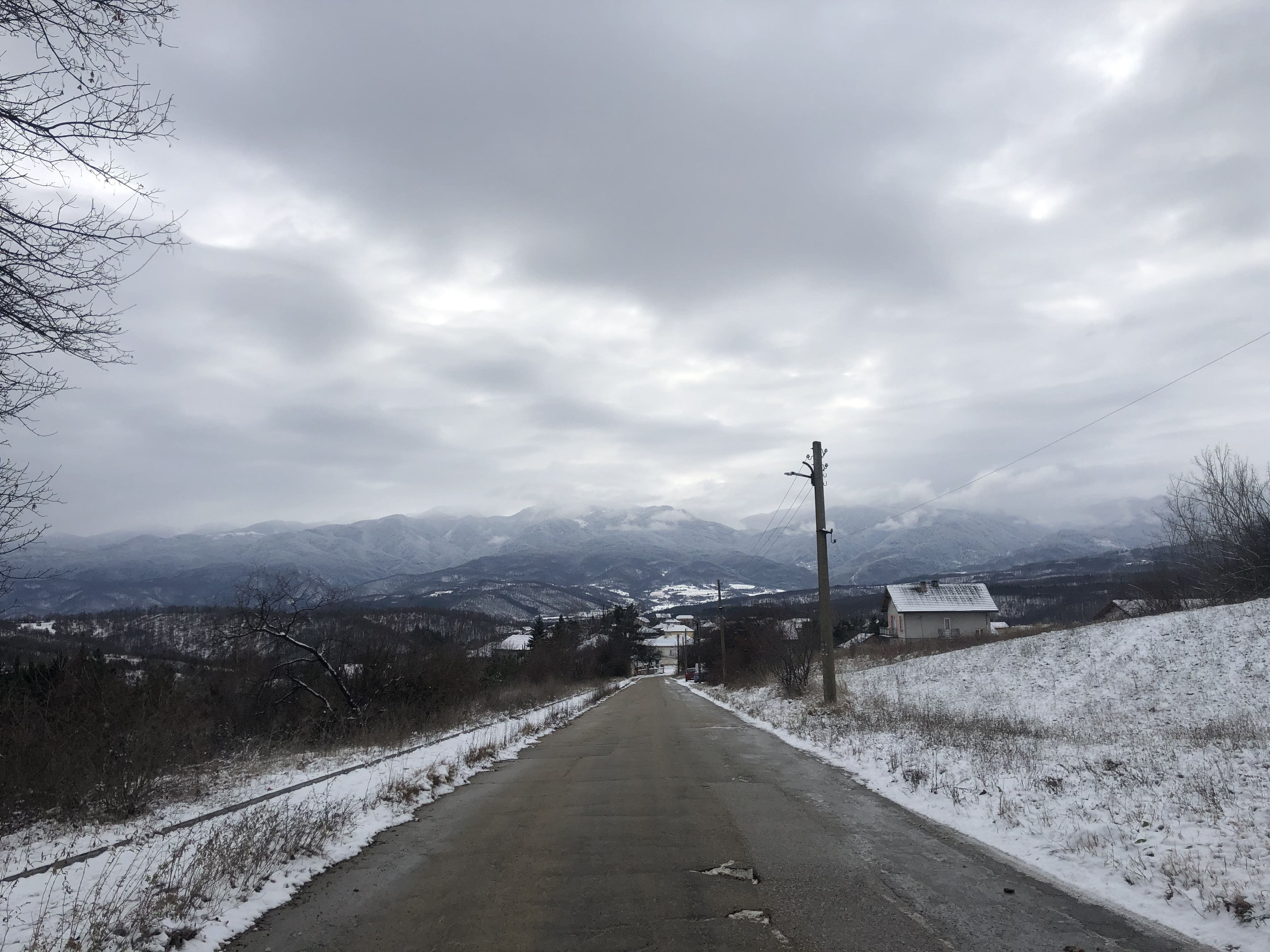 Snow-capped Rila Mountain from the village of Gutsal, Samokov District